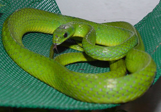 Photograph of a Cyclophiops major.